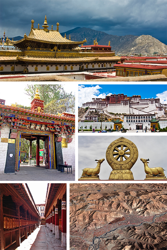 Collage of views of Lhasa, Tibet